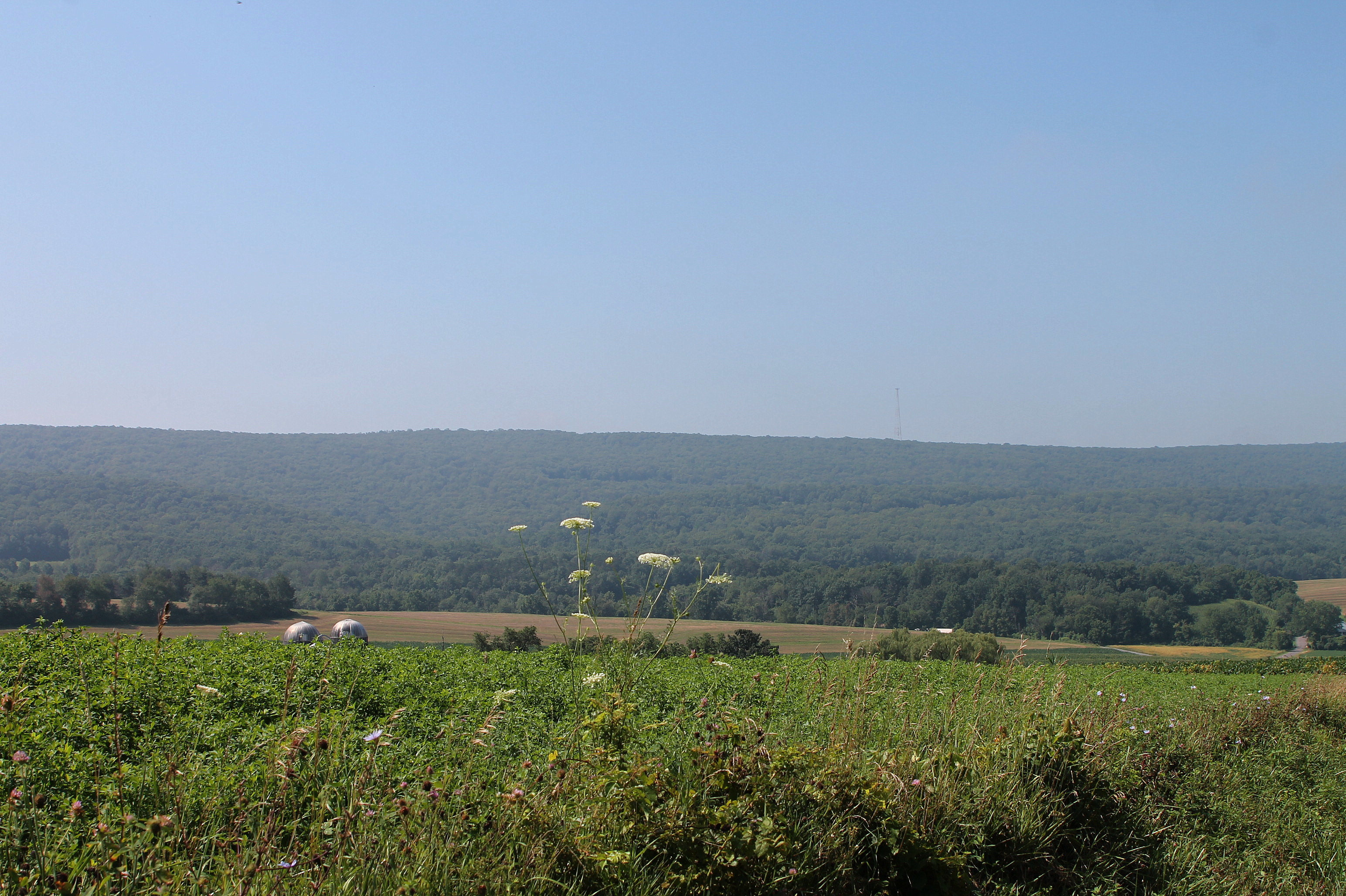 Montour Ridge in Liberty Township, Montour County, Pennsylvania